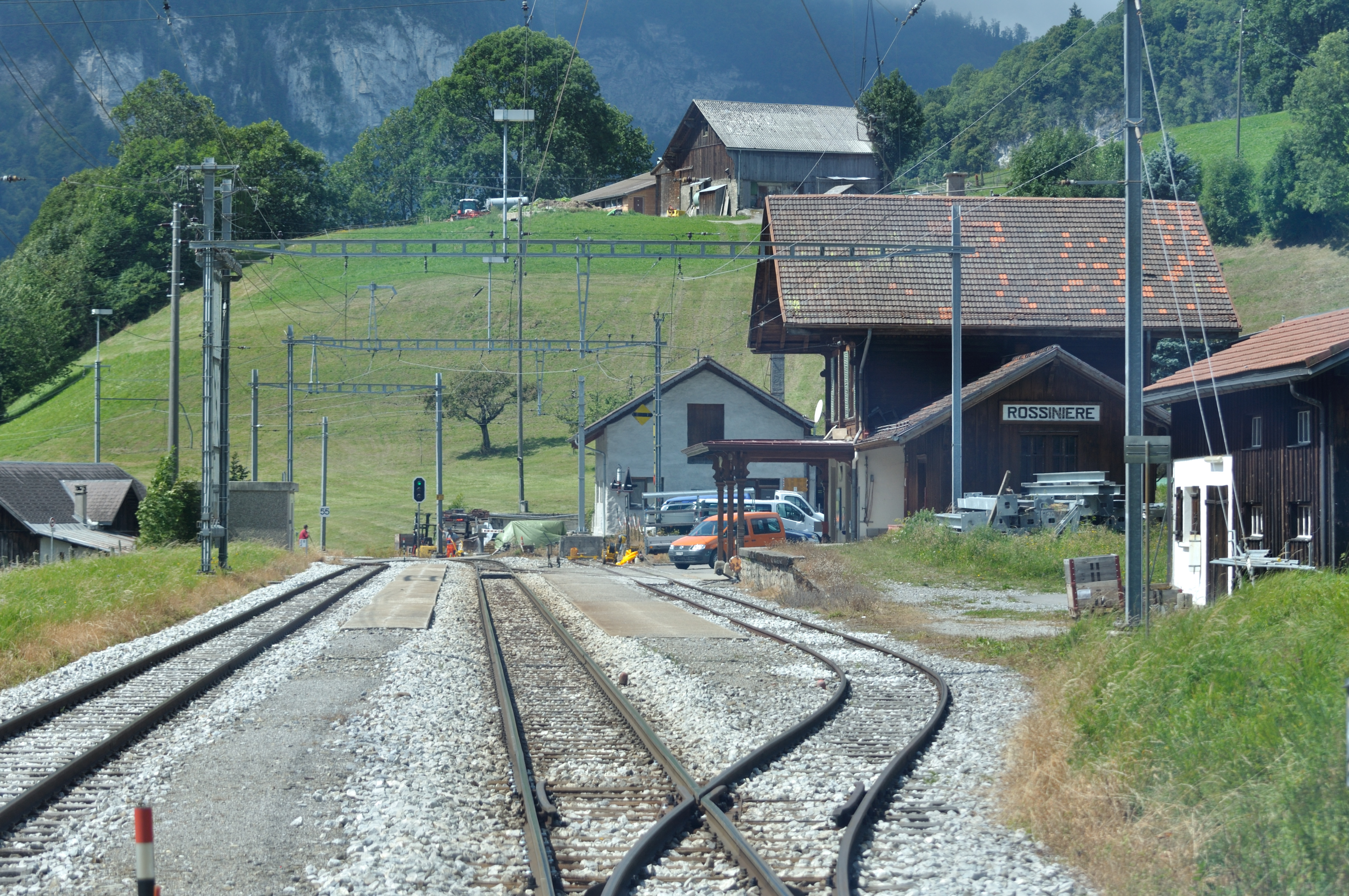 Switzerland, Vaud, impressions from the drivers cabin on the Chemin de fer Montreux Oberland bernois. For exact location see geodata.